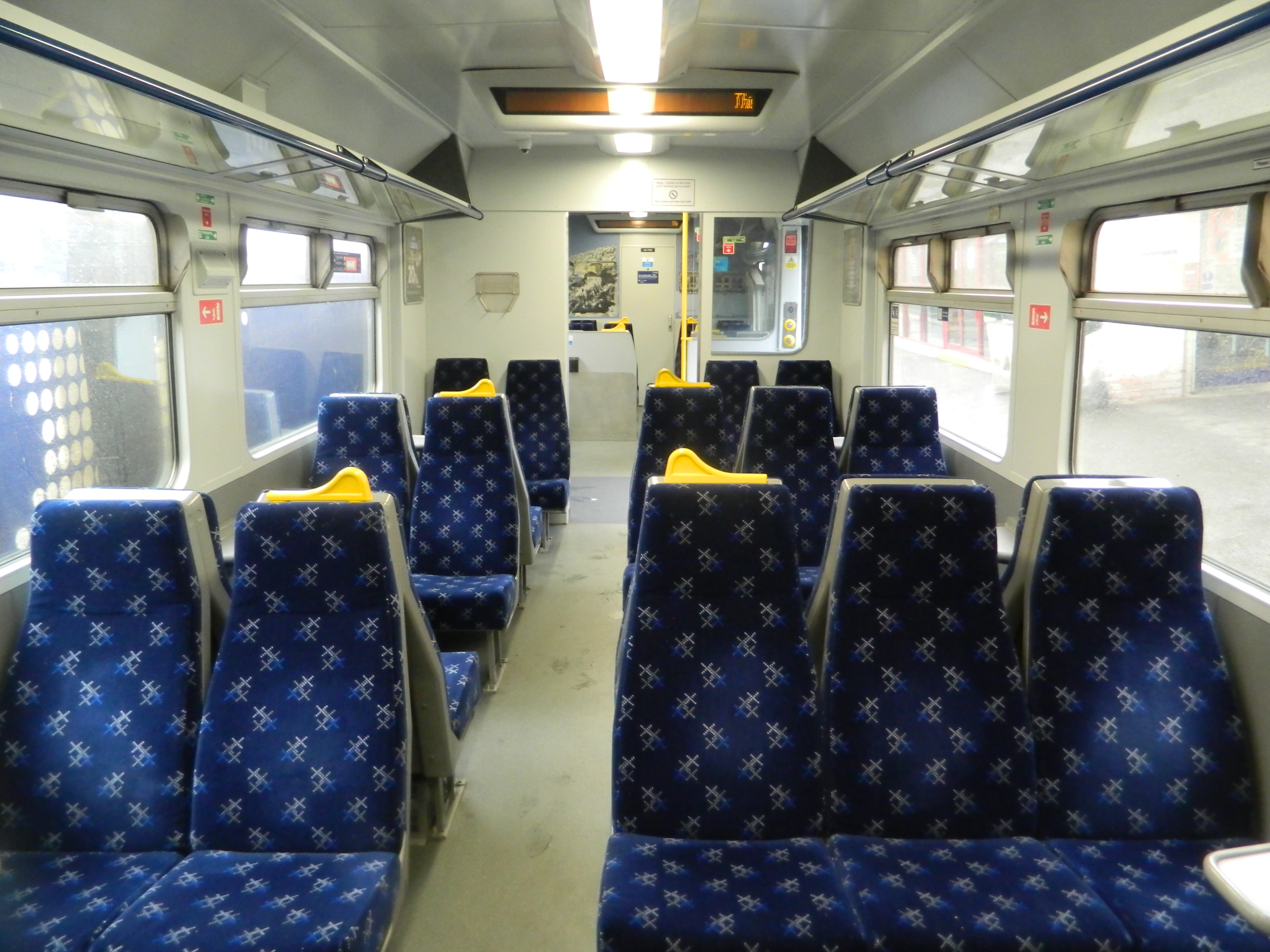 The ScotRail Saltire interior of 320302.